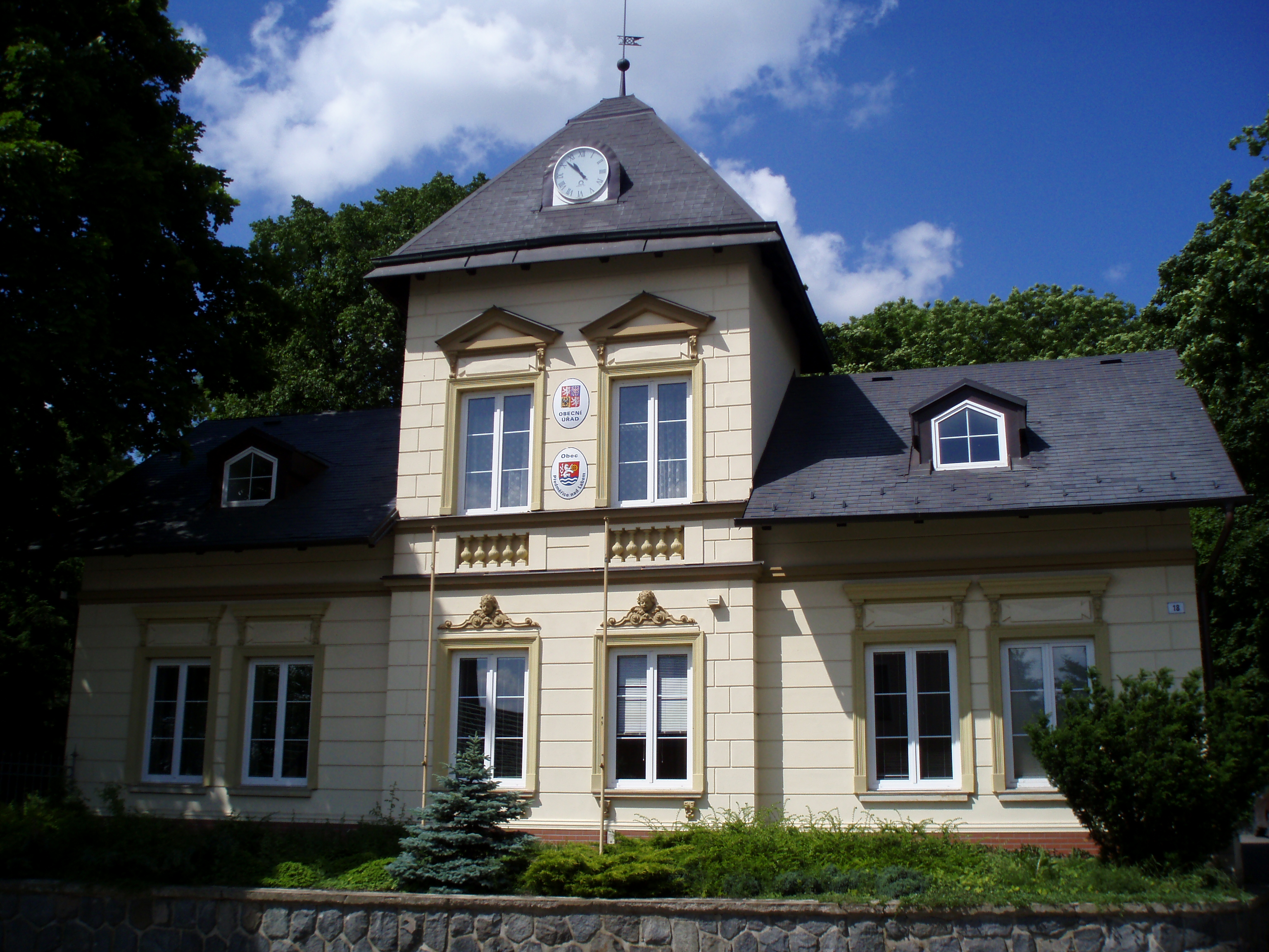 Local Authority in Předměřice nad Labem